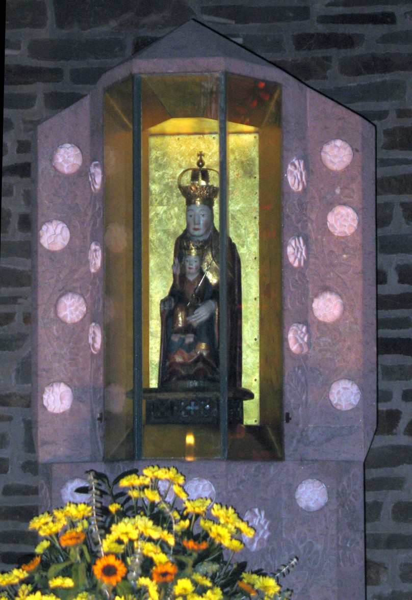 Statue of Mary as Rosa Mystica in the new parish and pilgrimage church St Catharina in Buschhoven near Bonn, Germany. The statue of the 12th century, that has been venerated since 1190, was relocated in 1806 from the nearby Premonstratensian abbey Schillingskapellen after German mediatisation to the former parish church St Catharina.